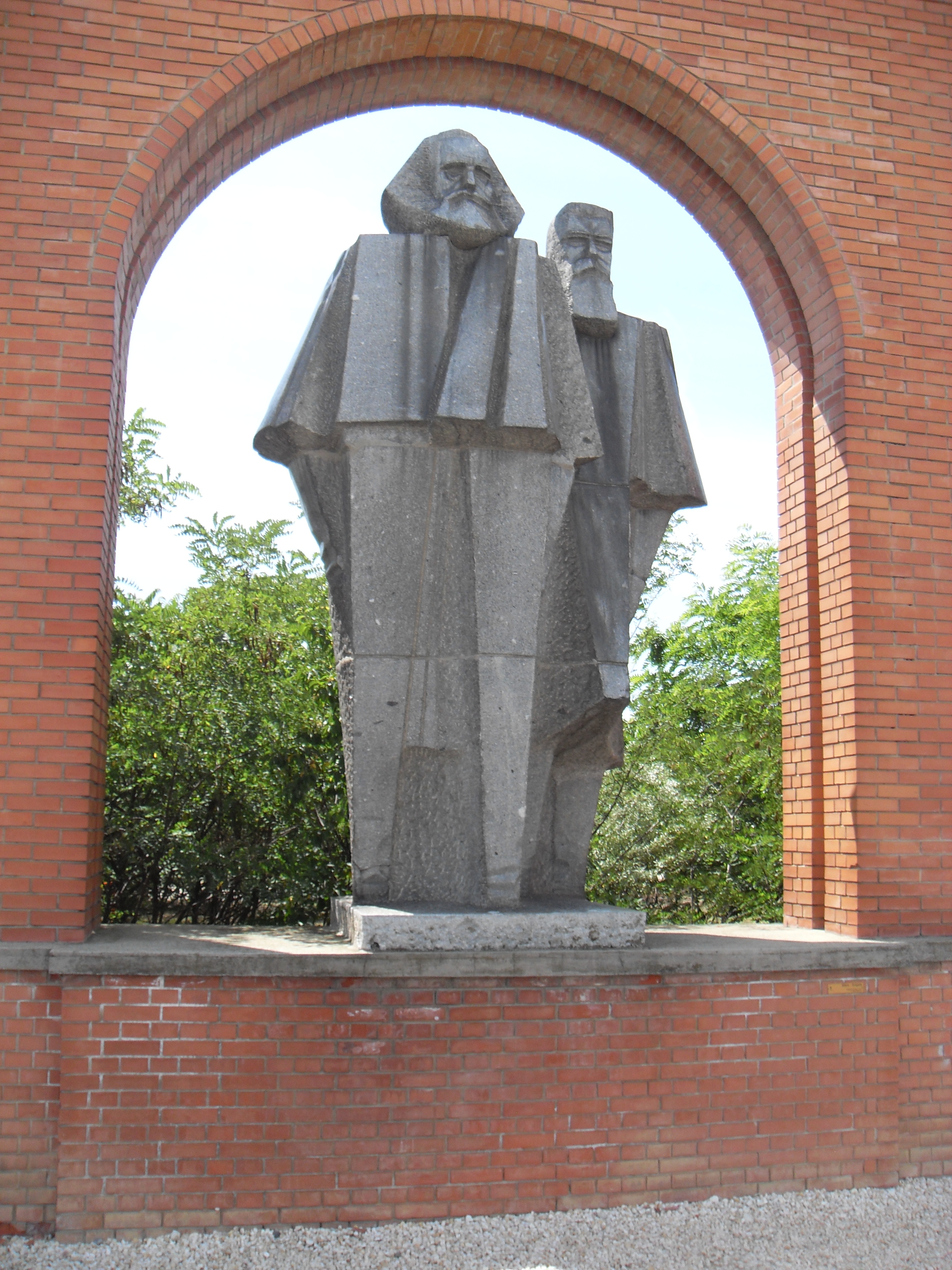 Karl Marx and Friedrich Engels statue. The 4 meter high granit figures were located at the main entrance of the communist party head quarters in Budapest. Today the monument belongs to the communist statues collection of the Memento Park.